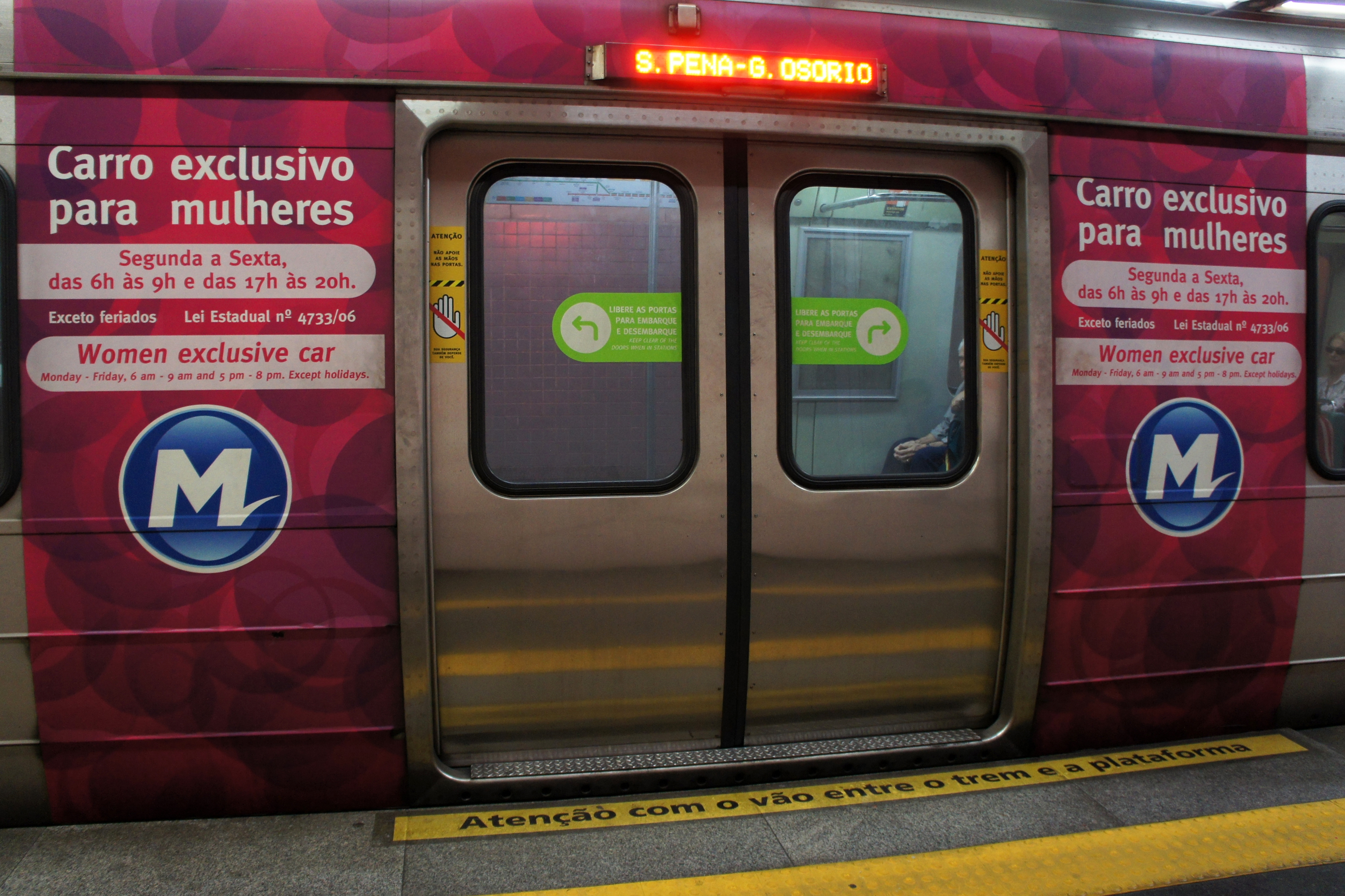 Women-only subway car at Rio de Janeiro Metro. During rush hours only women passenger are allowed in the subway car designated as such.